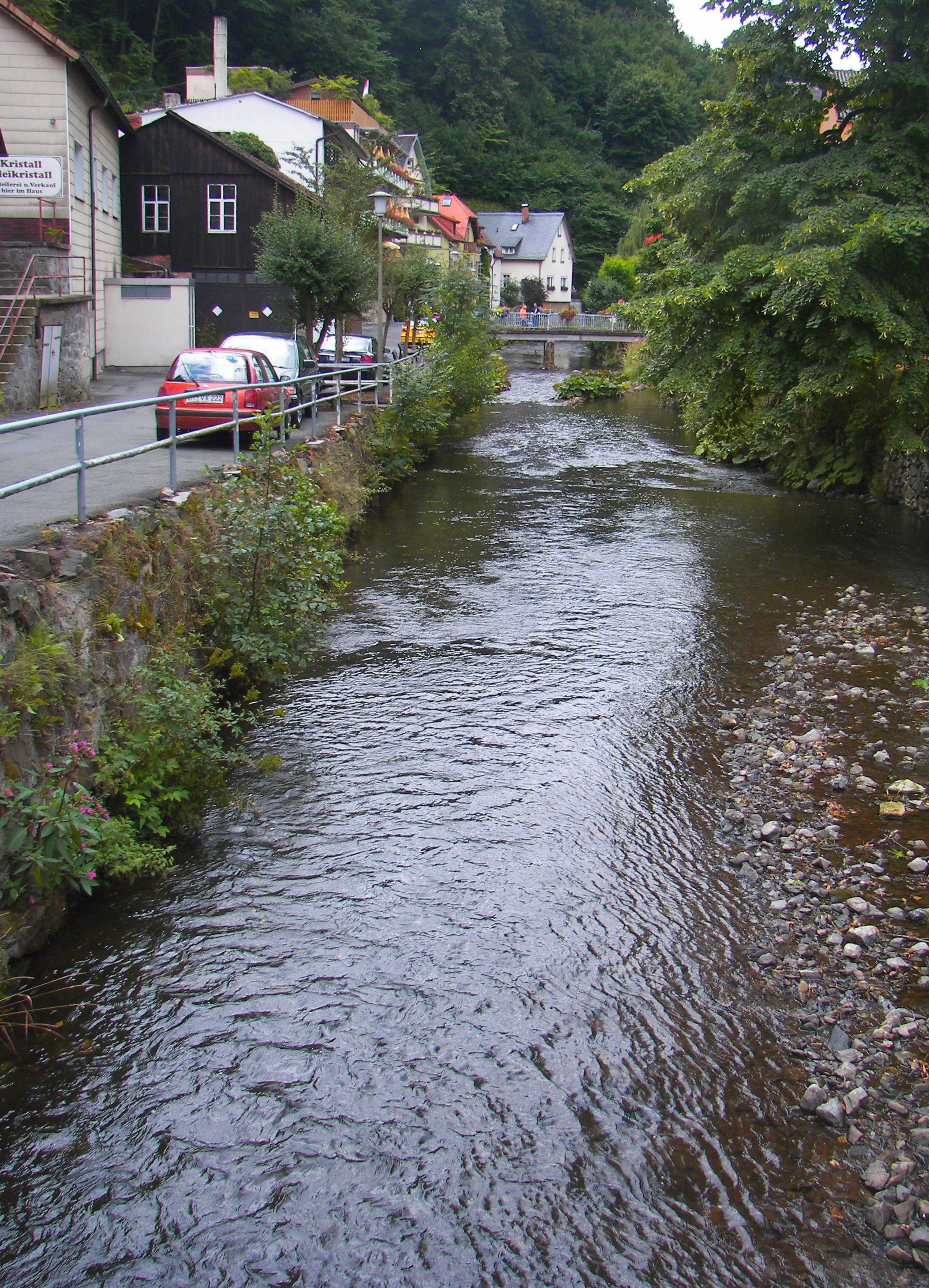 The Ölschnitz (White Main) in Bad Berneck, Bavaria, Germany